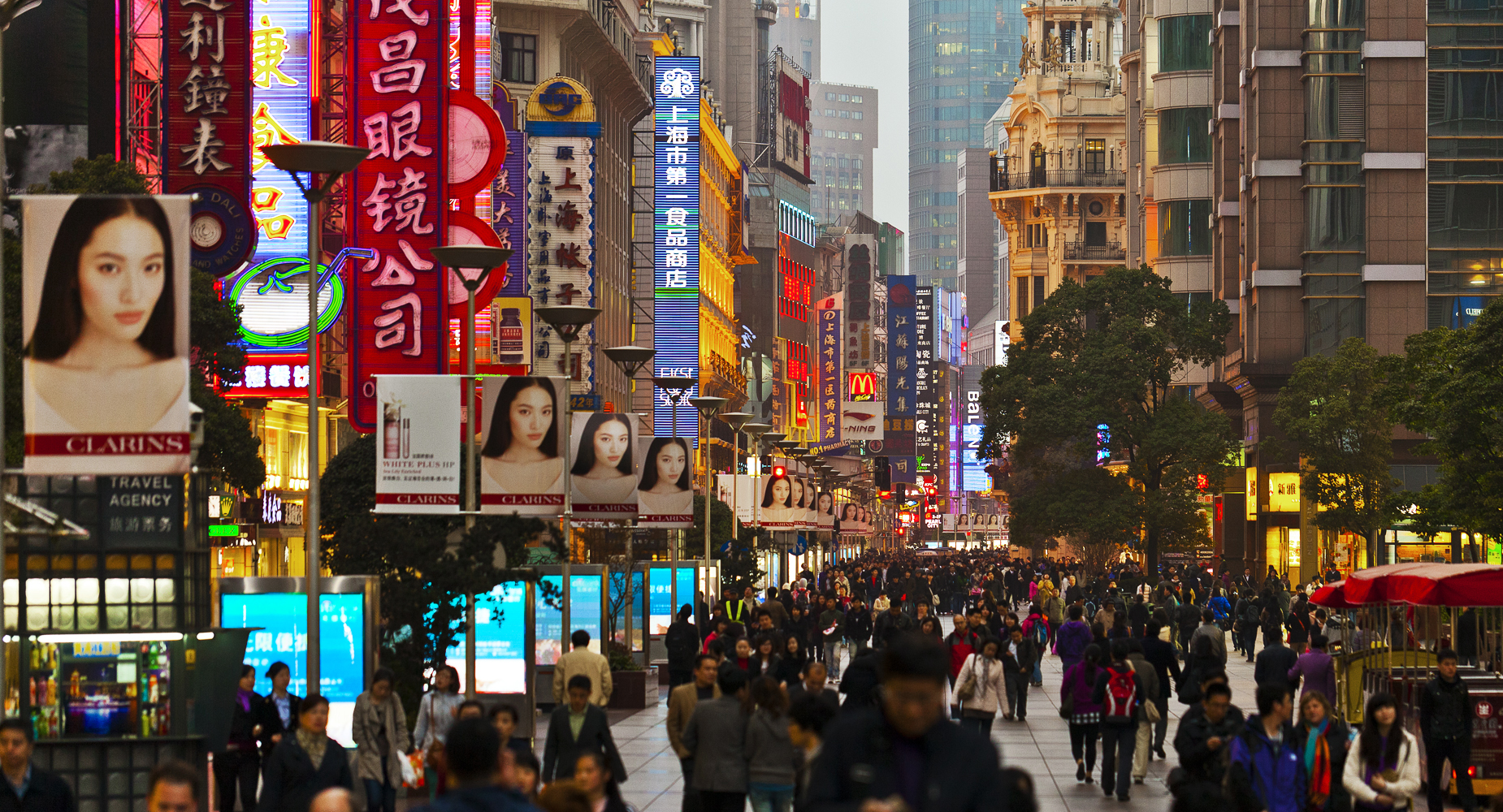 East nanjing shanghai street